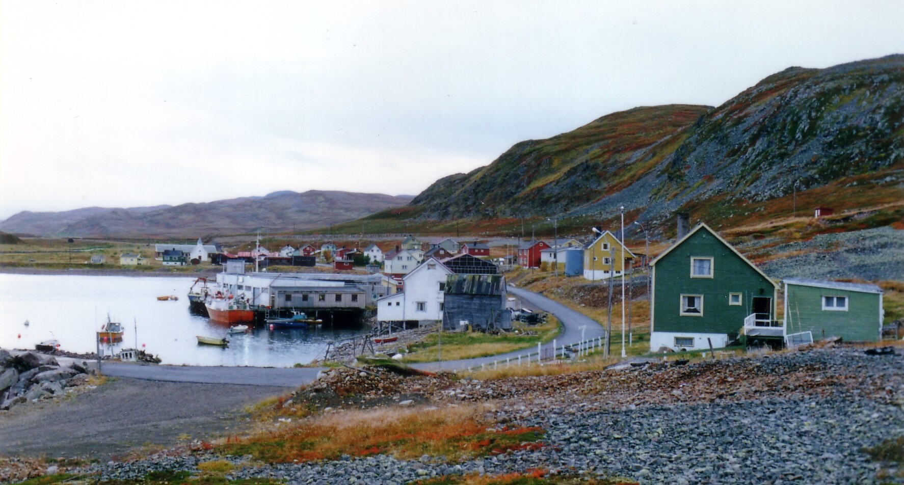 The abandoned fishing village of Syltefjord in the municipality of Båtsfjord, Finnmark, North Norway